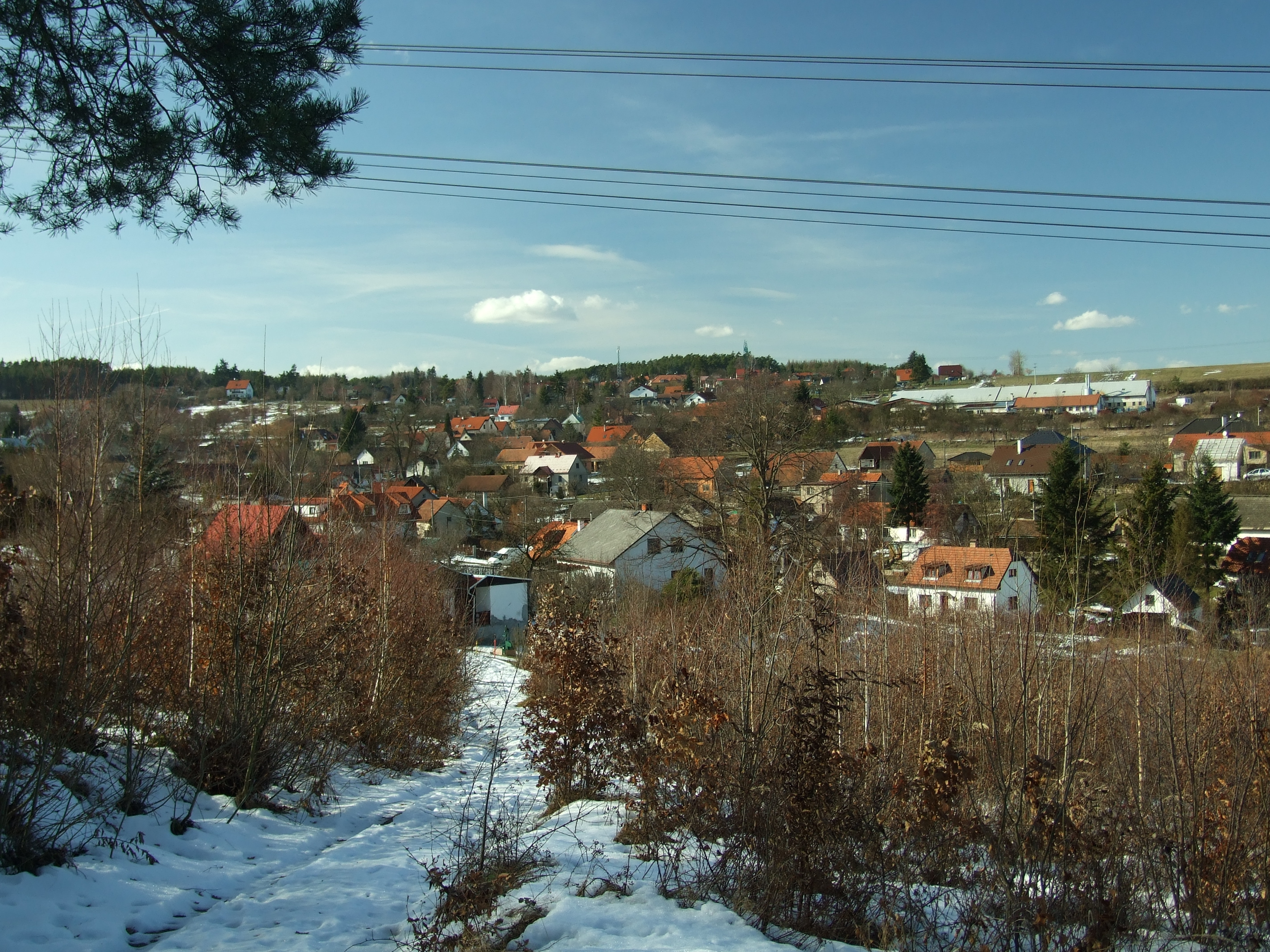 Hvozdnice village seen from south. Hvozdnice is located near Štěchovice and Mníšek pod Brdy, Central Bohemian Region, CZ